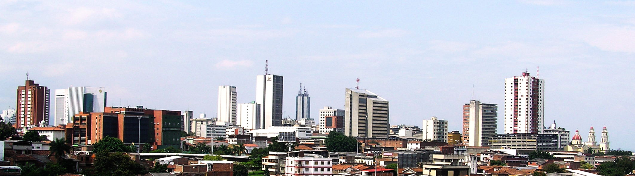 Centro de Santiago de Cali, Colombia